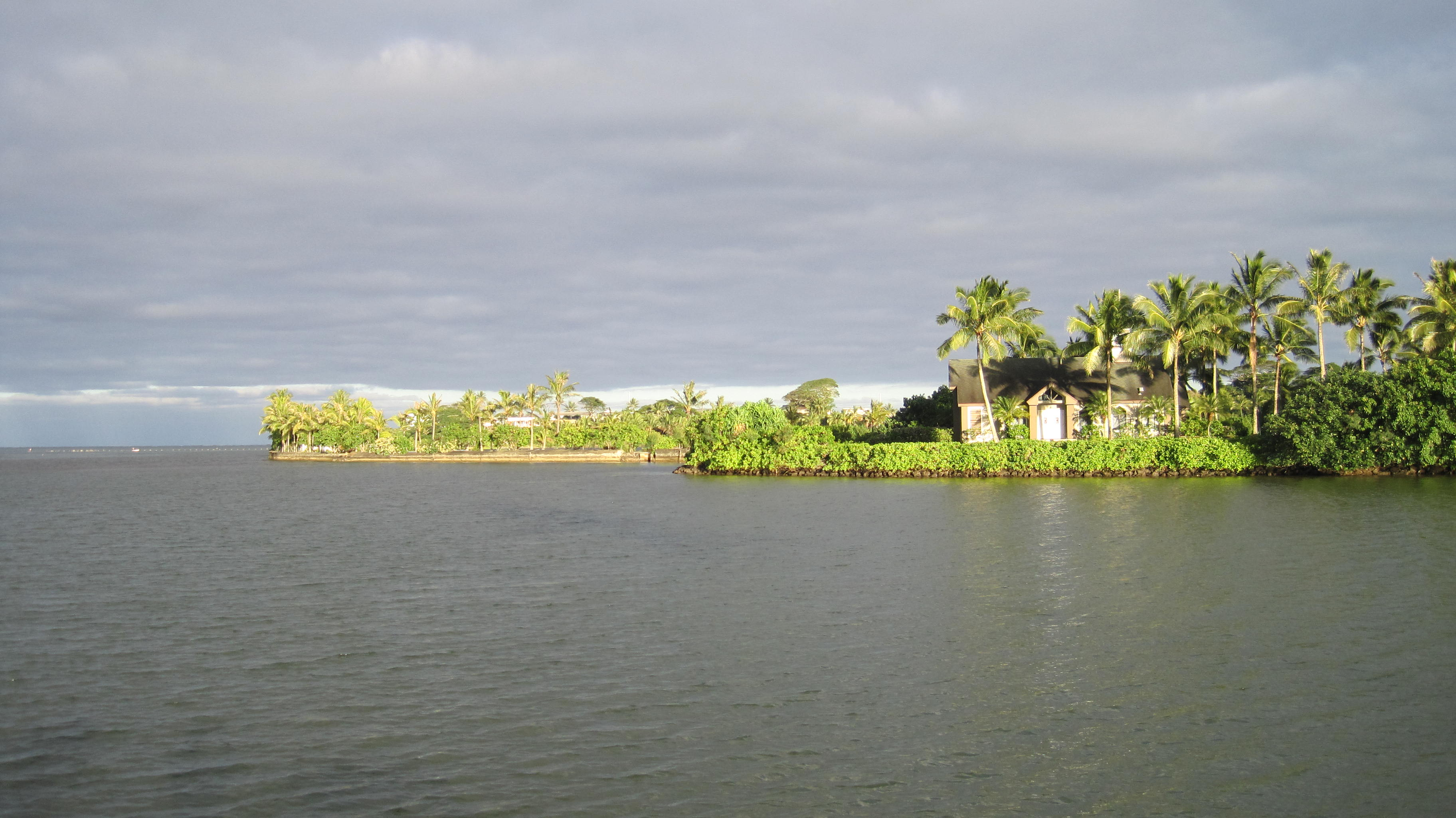 Kahaluʻu Fishpond seawall, and a wedding chapel, Oahu, Hawaii. on National Register of Historic Places